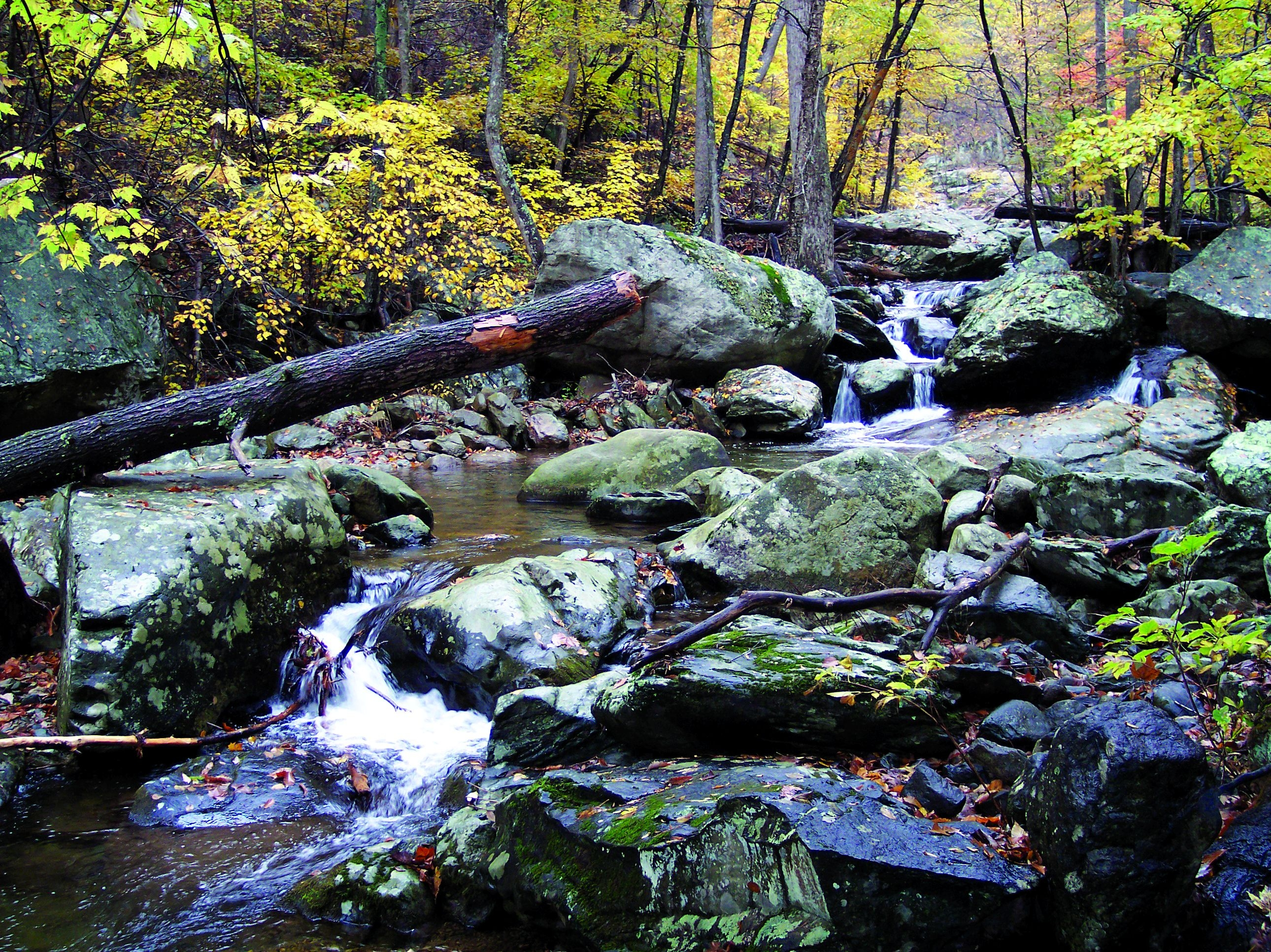 Whiteoak Canyon, Shenandoah National Park, Virginia